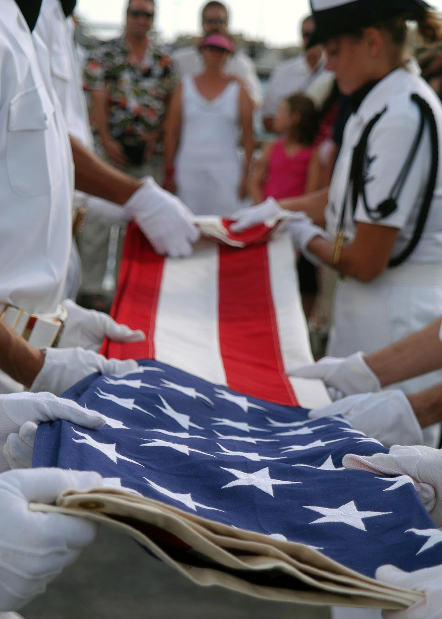 Pearl Harbor, Hawaii (July 7, 2005) – Several members of the U.S. Pacific Fleet Honor Guard ceremoniously fold the U.S. flag during a burial at sea aboard the USS Arizona Memorial. U.S. Navy photo by Photographer's Mate 3rd Class Ian W. Anderson (RELEASED)